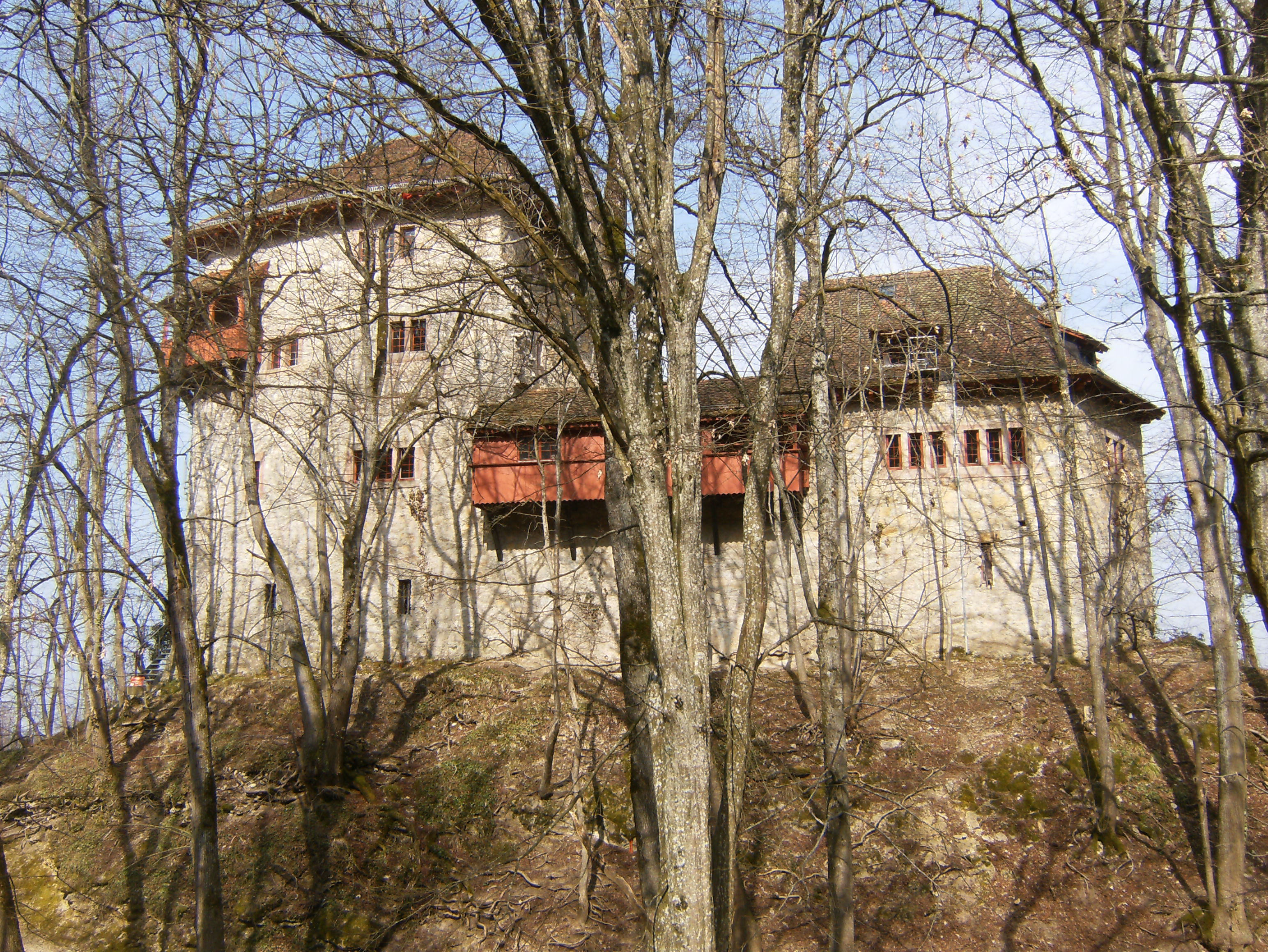 Burg Rotberg SO